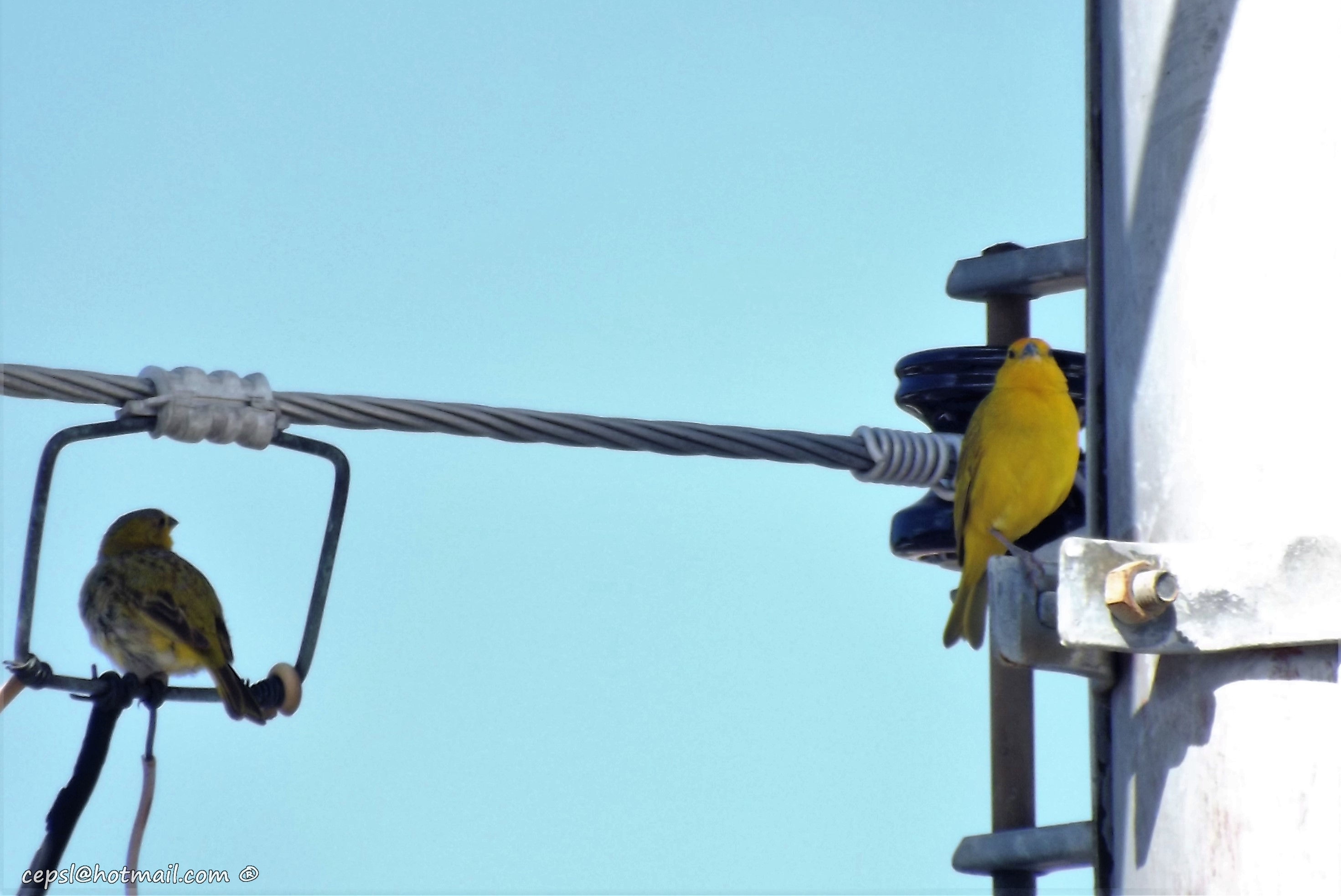 A pair of Canaries of roof resting in the shade of the lighting public, probably female adult and a juvenile (left)